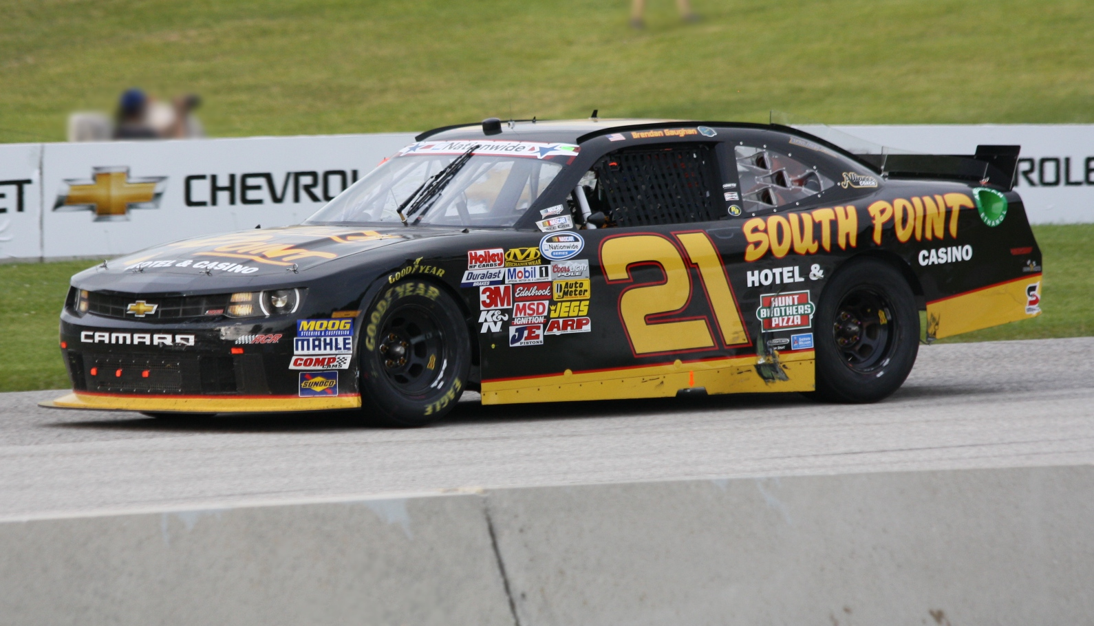 The NASCAR Nationwide car of Brendan Gaughan during the w:2013 Johnsonville Sausage 200 at Road America.